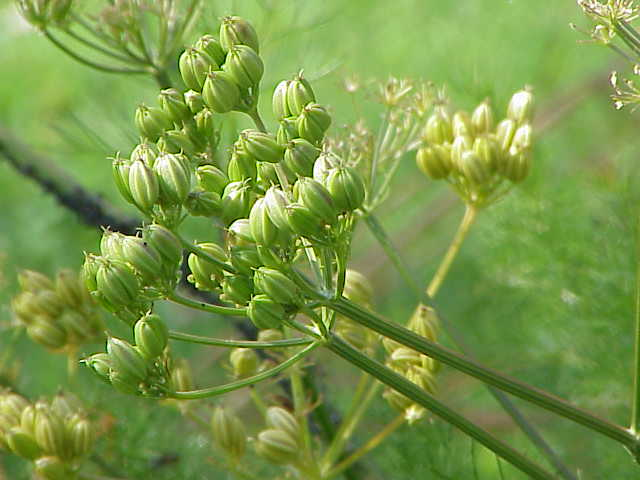 Species: Meum athamanticum Family: Apiaceae Image No. 1